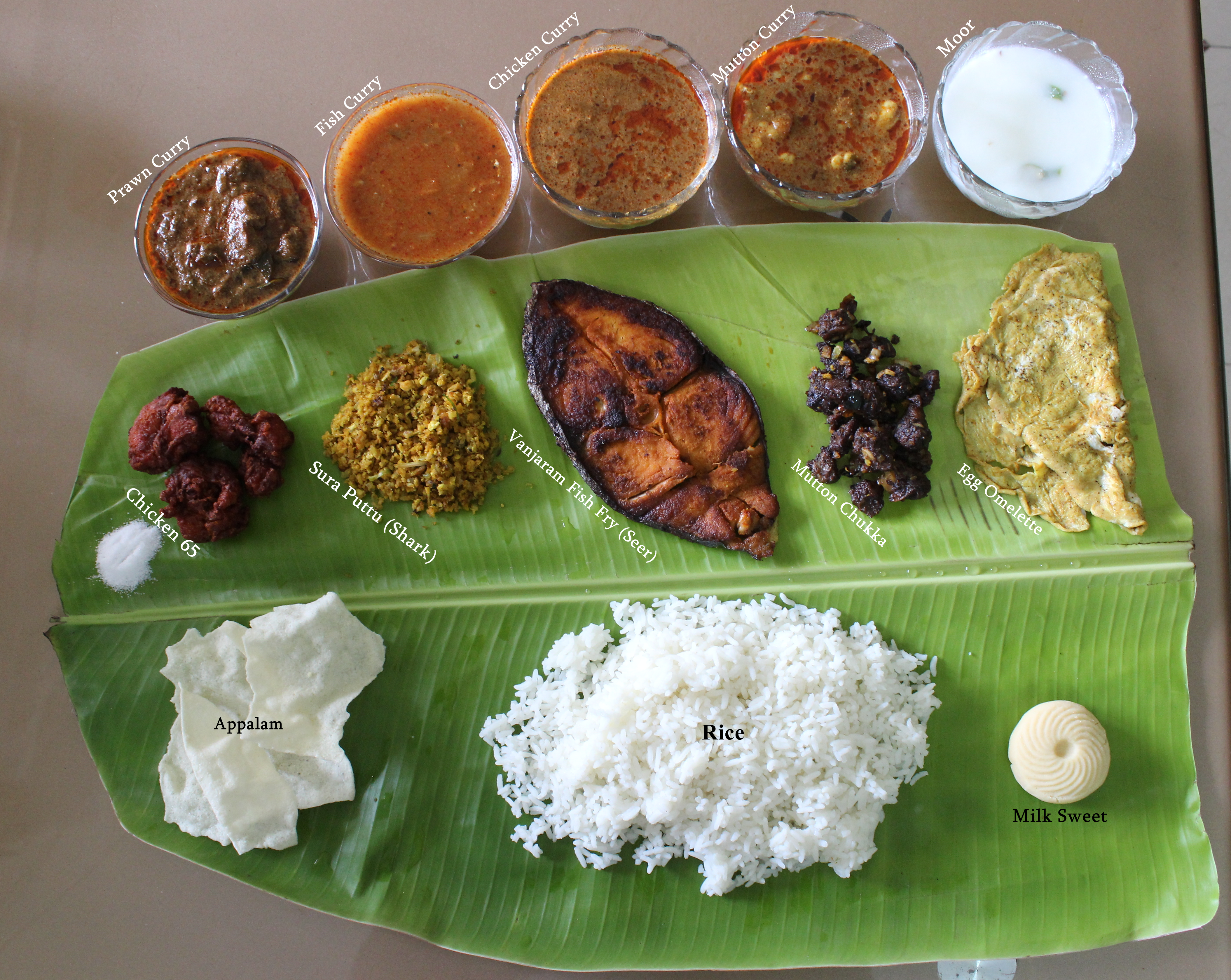 Tamil Nadu Non-Vegetarian Meals